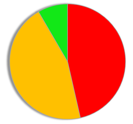 Expressed as a pie chart in the Mie gubernatorial election in 2011, the number of votes for each candidate. explanatory notes ■ - Eikei Suzuki ■ - Naohisa Matsuda ■ - Emi Okano